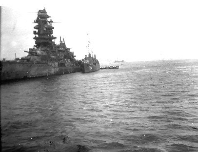 United States Navy high-speed transport USS William J. Pattison (APD-104) alongside the Japanese battleship Nagato in Tokyo Bay after World War II